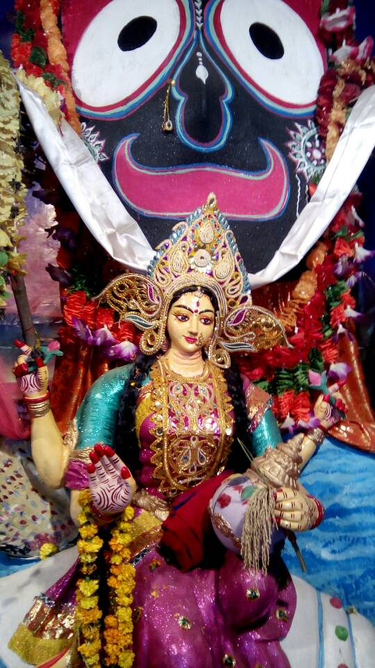 Laxmi Pooja